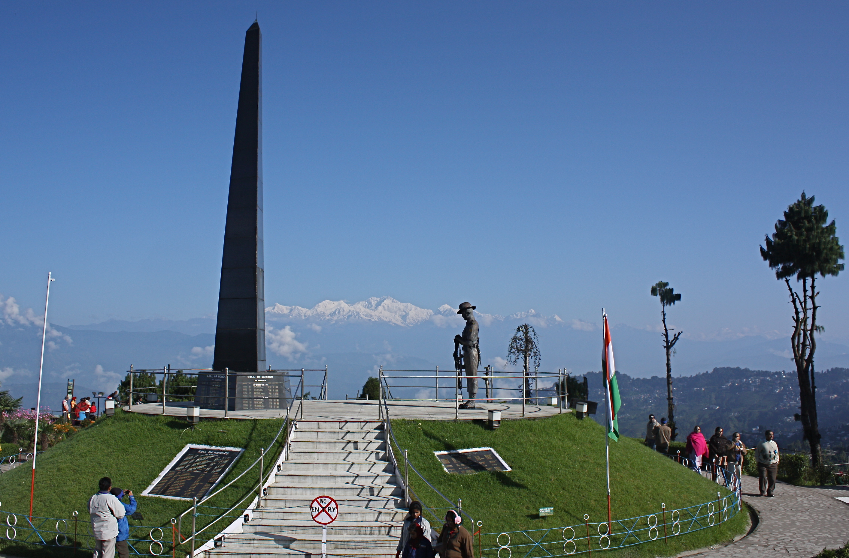 The Batasia loop is an engineering marvel where the railway tracks intersect to form a figure of eight. The war memorial at the centre of the loop honours those sons of Darjeeling who died in the several wars since 1947.